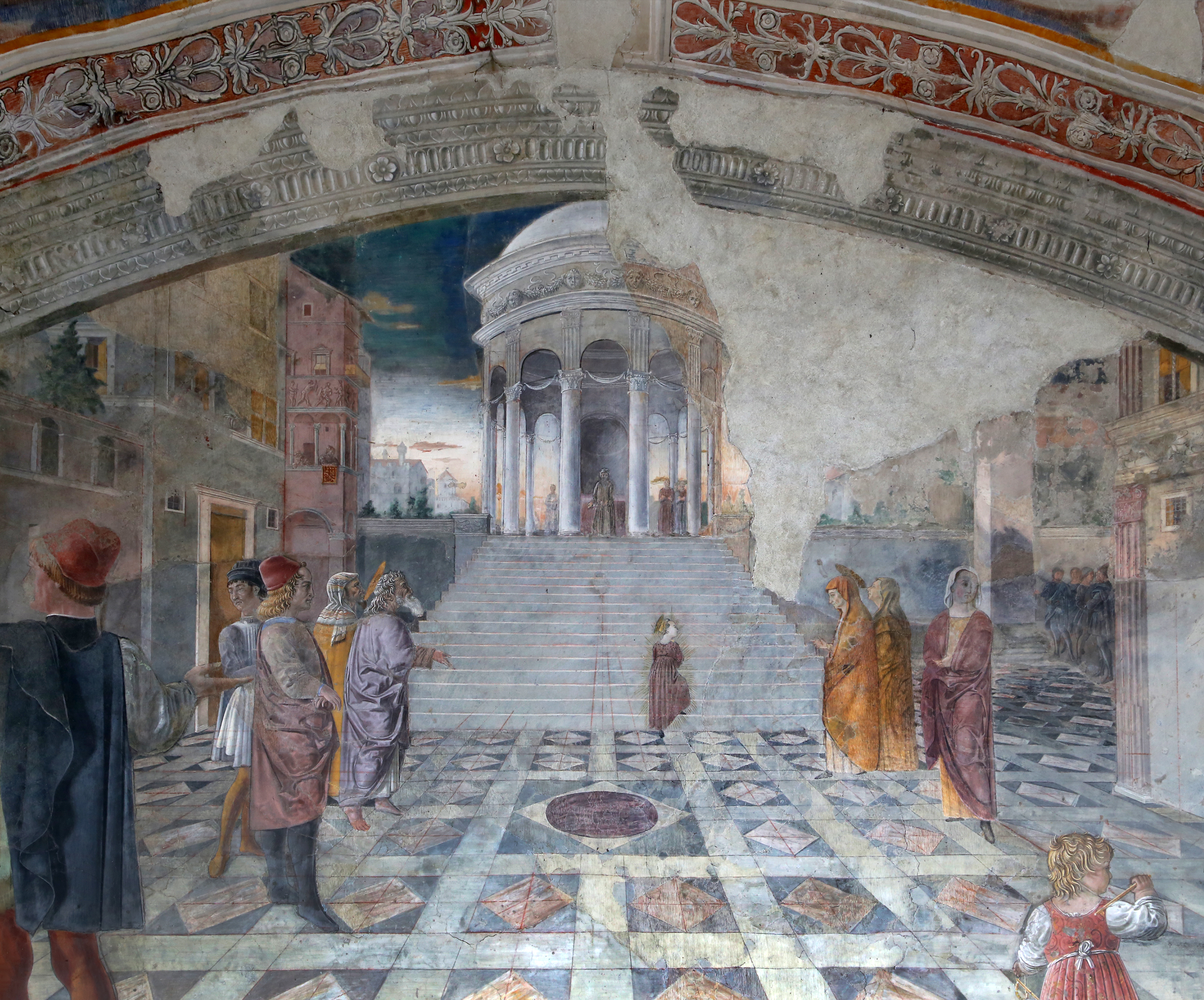 Cappella Mazzatosta